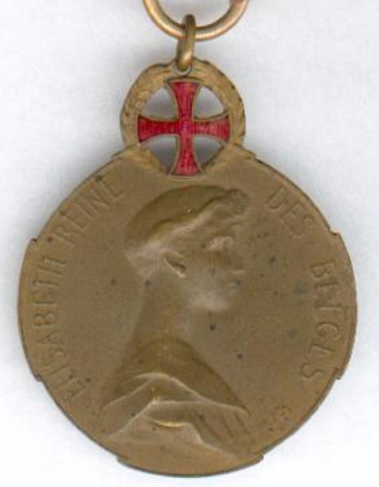 Belgian Queen Elizabeth Medal for relief for Belgium's citizens during the First World War - variant with Red Cross.